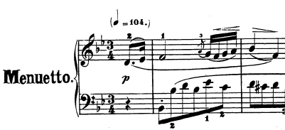 Incipit of the 3th movemnt from the Piano Sonata No. 11 (Beethoven) in B-flat major, Op.22.